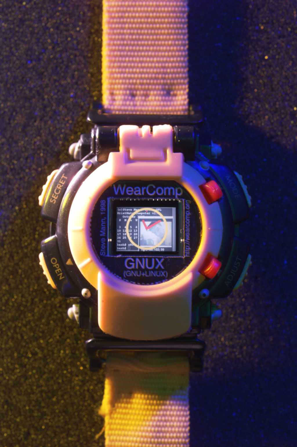 wristwatch computer from Here's a lightvector painting of the wearable wristwatch Linux videoconferencing system using SFree86, as featured in Linux Journal and demonstrated live at various venues including ISSCC 2000. (See also Lightvector) This was downsampled to fit Wikipedia guidelines of 100k suggested max filesize, but fullsize is in Shown on the 640x480 screen is UNIX "CAL", as well as transparent "oclock" and live video using PTP (Picture Transfer Protocol), which includes the idea of using one packet for each picture in a wirelessly transmitted video editing stream.